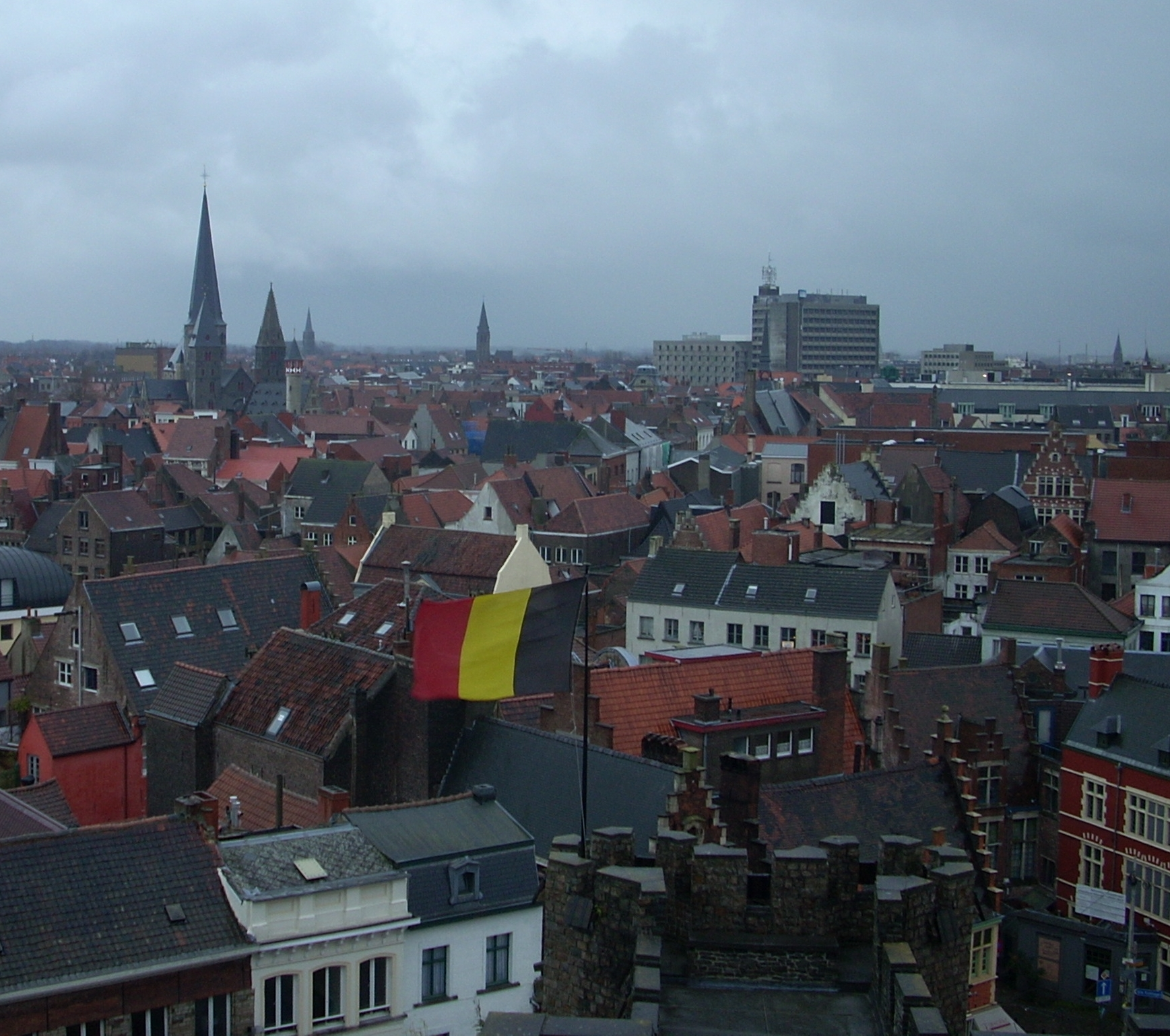 The flag of Belgium (seen from behind) in a 2:3 ratio flying from the Gravensteen castle overlooking Ghent.